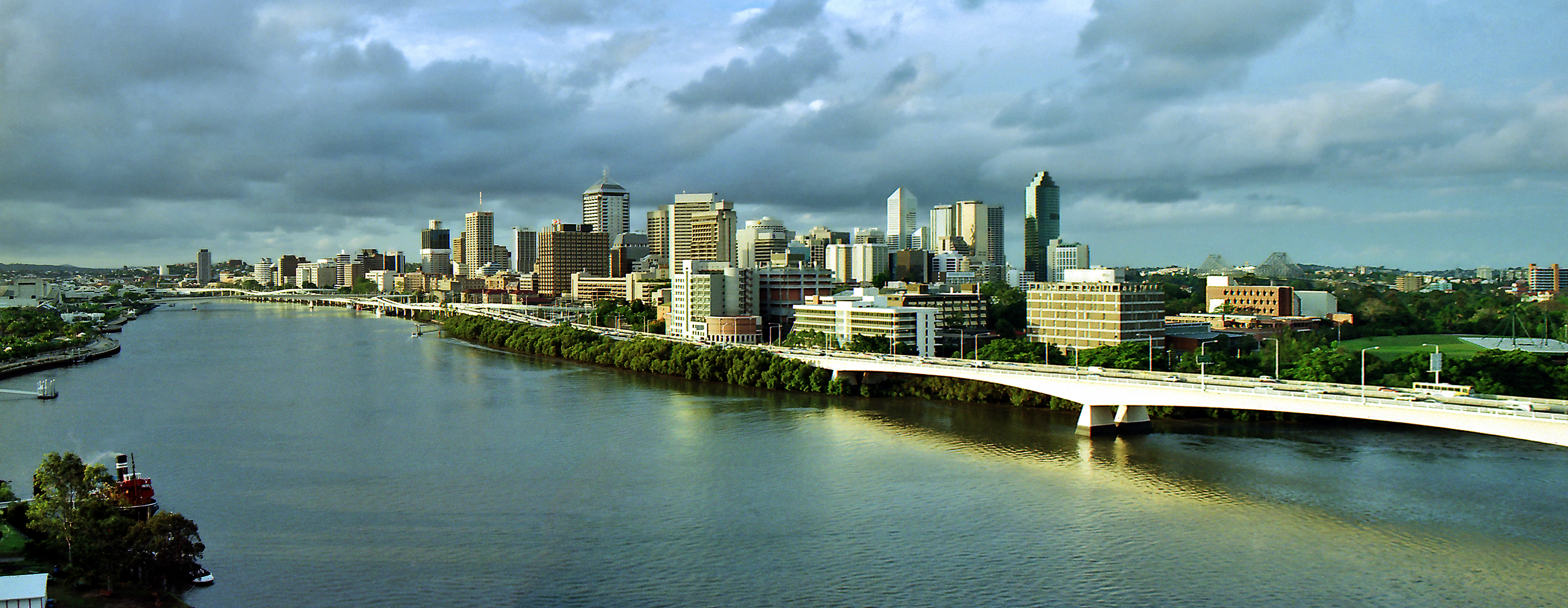 IMAGE INFO View is looking north from an upper storey unit in the "River Plaza" Hotel at South Brisbane (now called "River Plaza Apartments"), across the Brisbane River towards the Central Business District. On 21 Oct 2001, a new pedestrian/cyclist bridge called the "Goodwill Bridge" was opened across the Brisbane River in the immediate foreground of this image (approximately from a few meters north of the red tugboat at left, to where the northern abutment of the Victoria Bridge ends, centre of pic). The Riverside Expressway (aka Pacific Motorway) runs all the way along the foreshore, from the Captain Cook bridge (right of pic). The Victoria Bridge can be seen across the river in the left background of pic. The flat-roofed structure at far right of image is the Riverstage - an outdoor entertainment venue. SOURCE INFO Original 6x4 size images were captured using a SEAGULL DF-300 SLR camera, with Kodak Gold 200 ISO color film. PROCESS INFO Digitized using a Canon Canoscan 8800F scanner. Panorama created by stitching 3 standard 6x4 size photos using Microsoft Image Composite Editor (ICE). Post-processed using Adobe Photoshop Creative Suite 8.0.